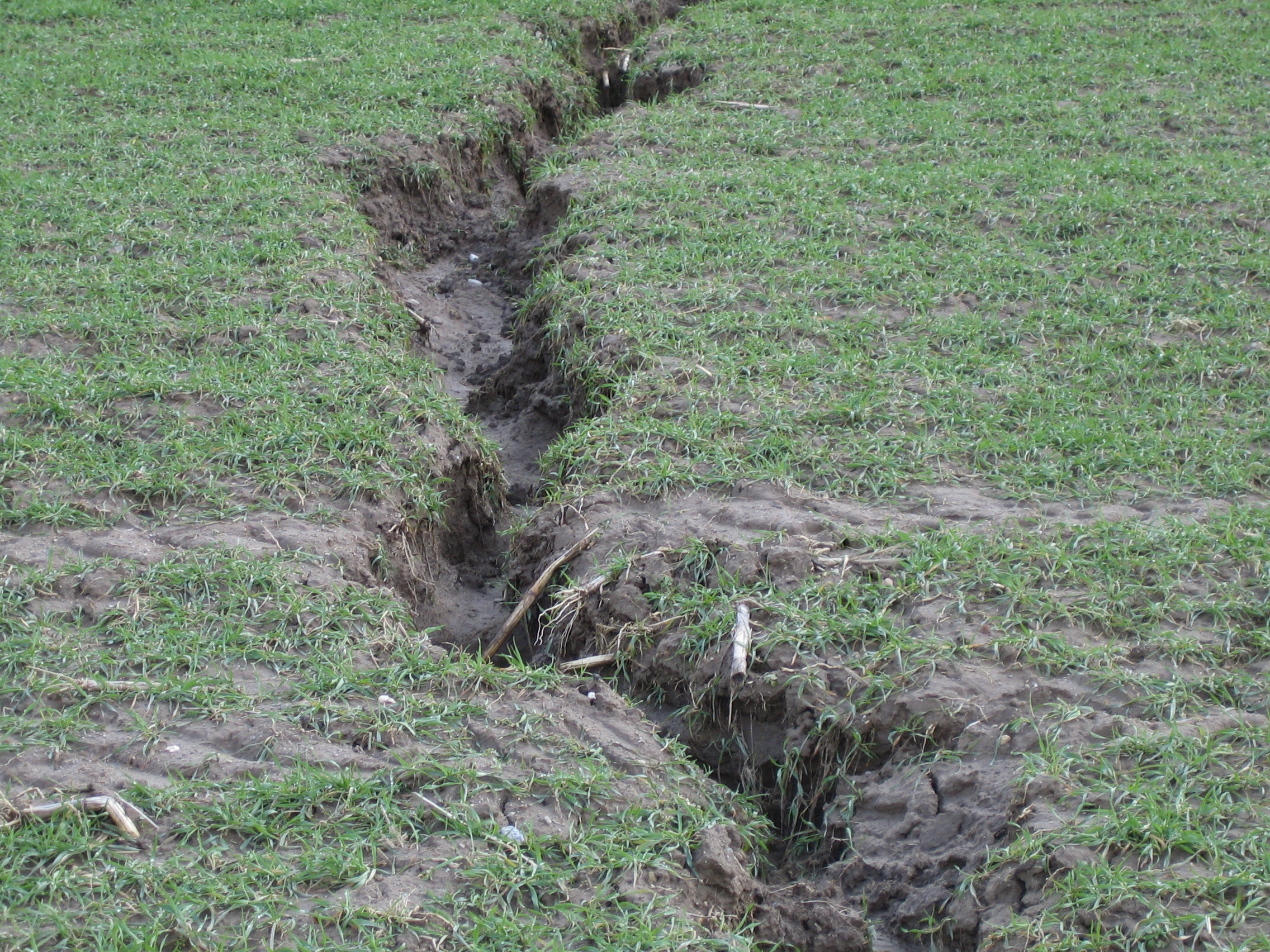 Erosion channels, canton of Bern, Switzerland